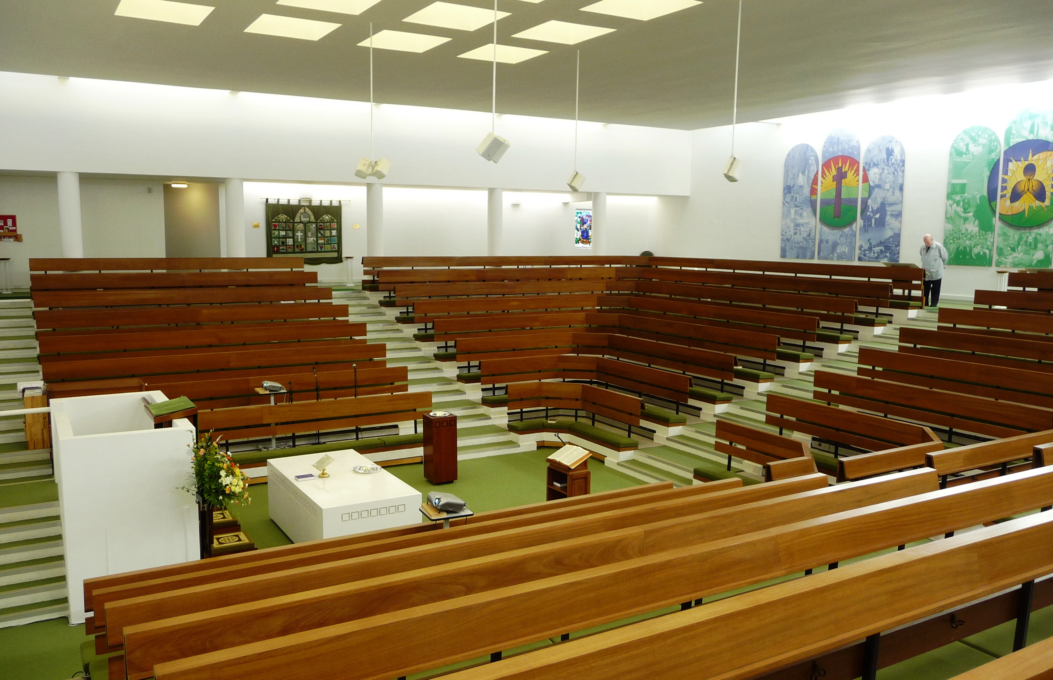 Sir William Kininmonth, 1964-66